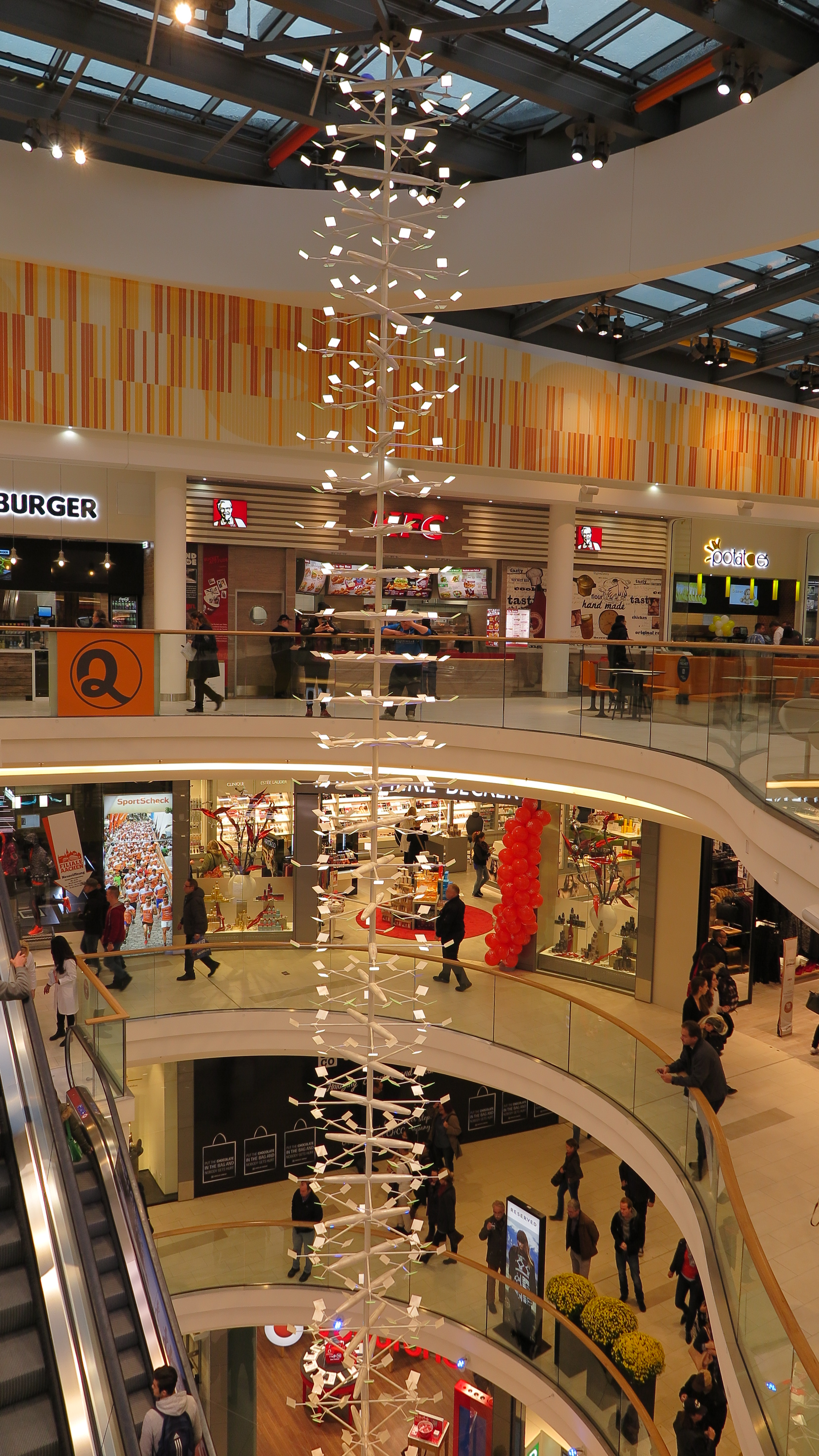 OLED lighting over four floors in the shopping mall Aquis Plaza in Aachen.